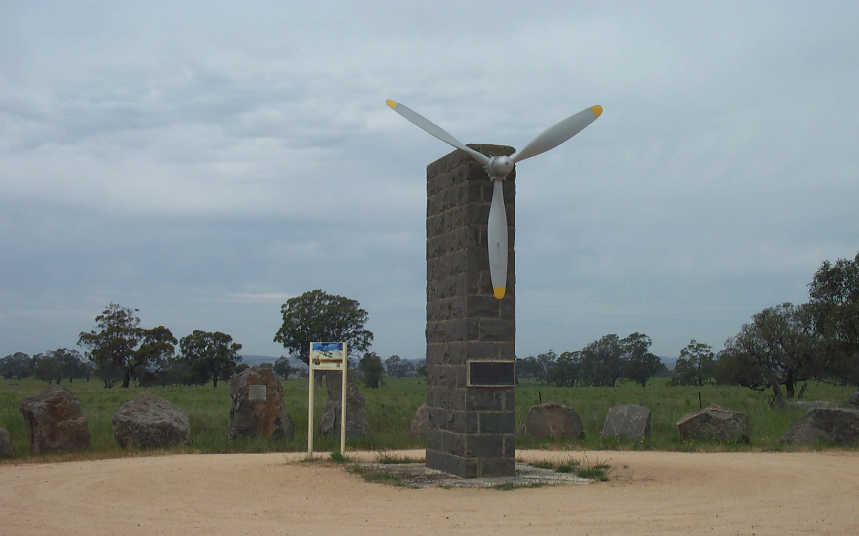 This memorial commemorates the first Australian-built aeroplane which first flew in 1910. The memorial was unveiled in 1960.